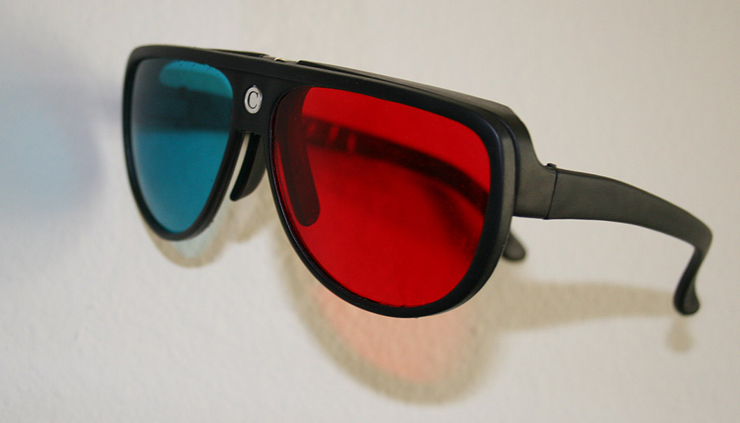 I took this picture myself and had full rights to shoot, and now grant to public use and wikipedia commons